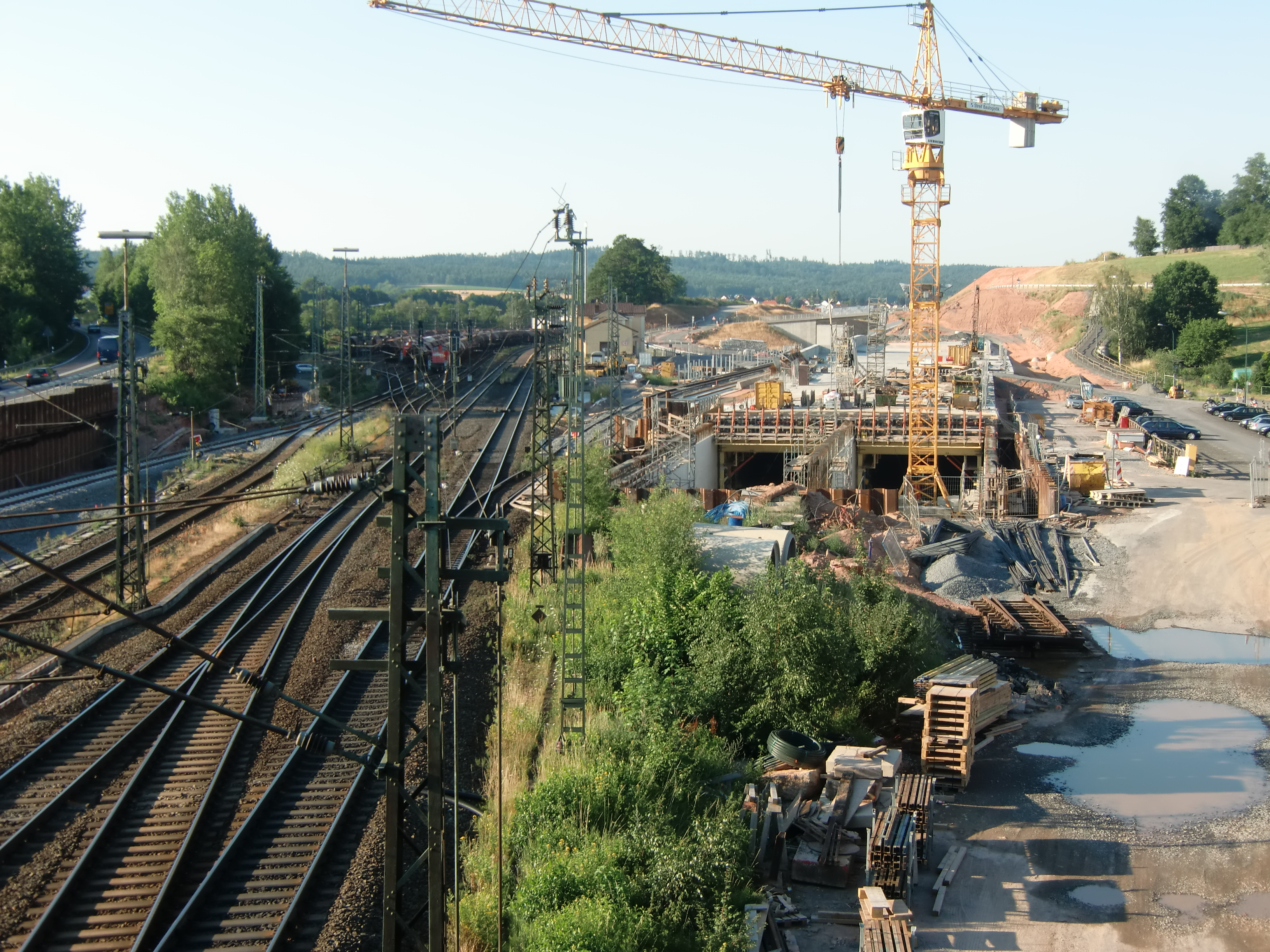 Construction site at train station Neuhof, Hesse. On the very left is Bundesstraße 40 which will be substituted by Bundesautobahn 66 (tunnel under construction on the right). When completed the new railway track will be situated between the original track and the Autobahn tunnel, right of the station building.